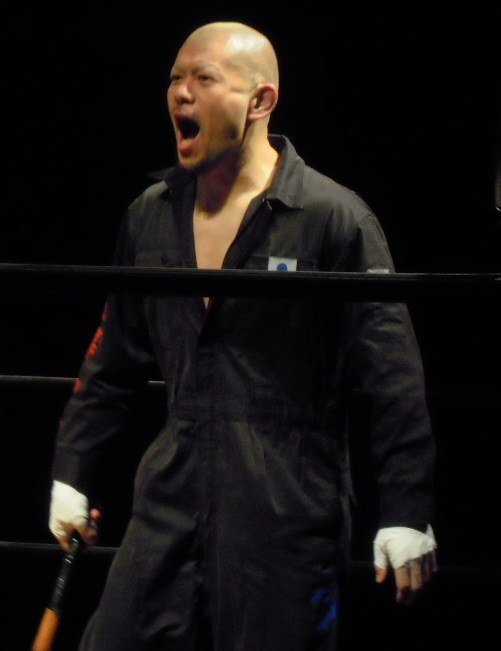 Japanese professional wrestler, Kenichiro Arai. Dec 29 2011 Kishindo Returns 8 Shin-kiba 1st Ring.